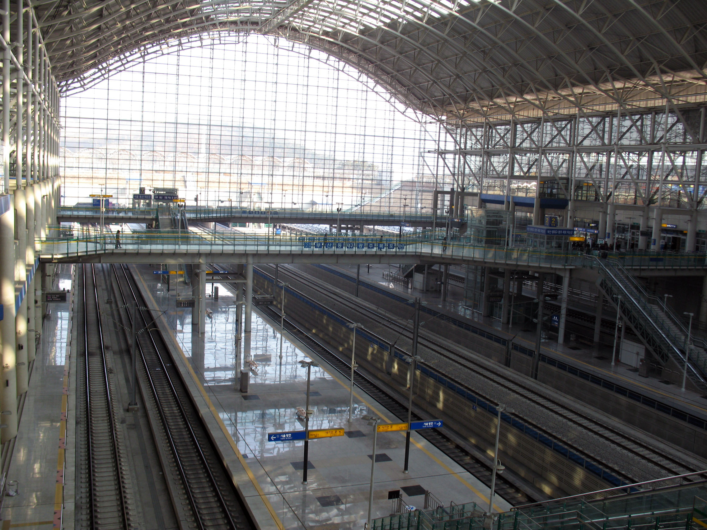 Interior of Korail Gwangmyeong Station.